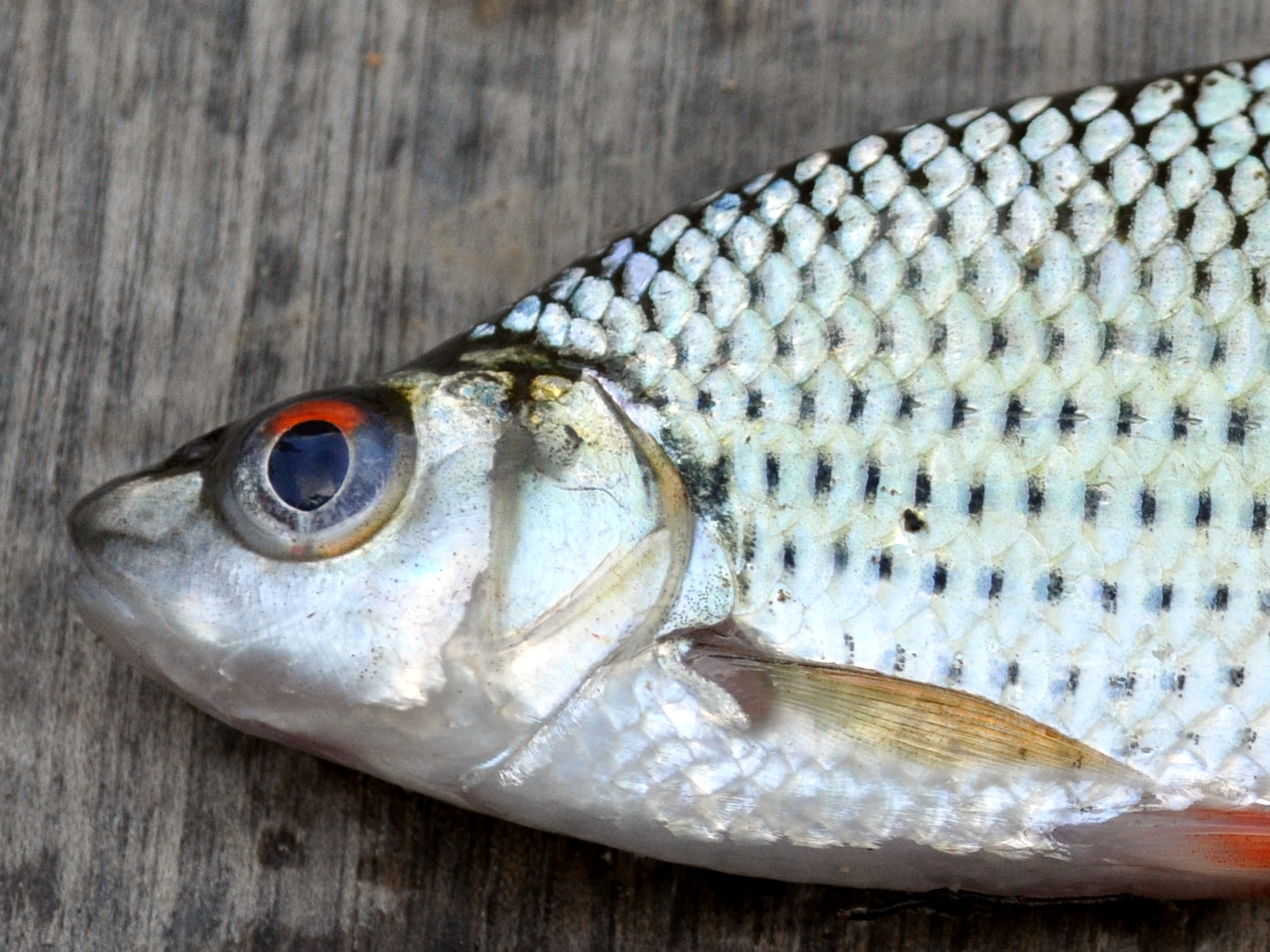 Beardless barb, Anematichthys apogon, ca. 11cm SL (standard length), anterior part. From West Kalimantan, Indonesia.